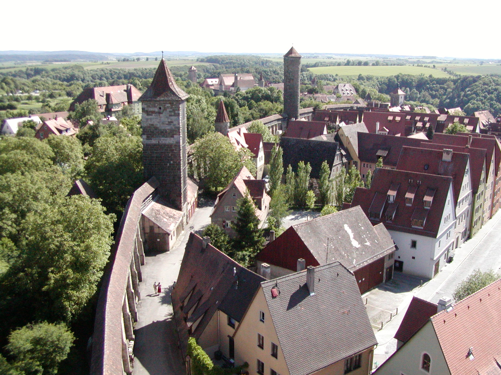 Photo of the Rothenburg wall taken on June 2nd, 2002 by Arthur W. Mohr, Jr.